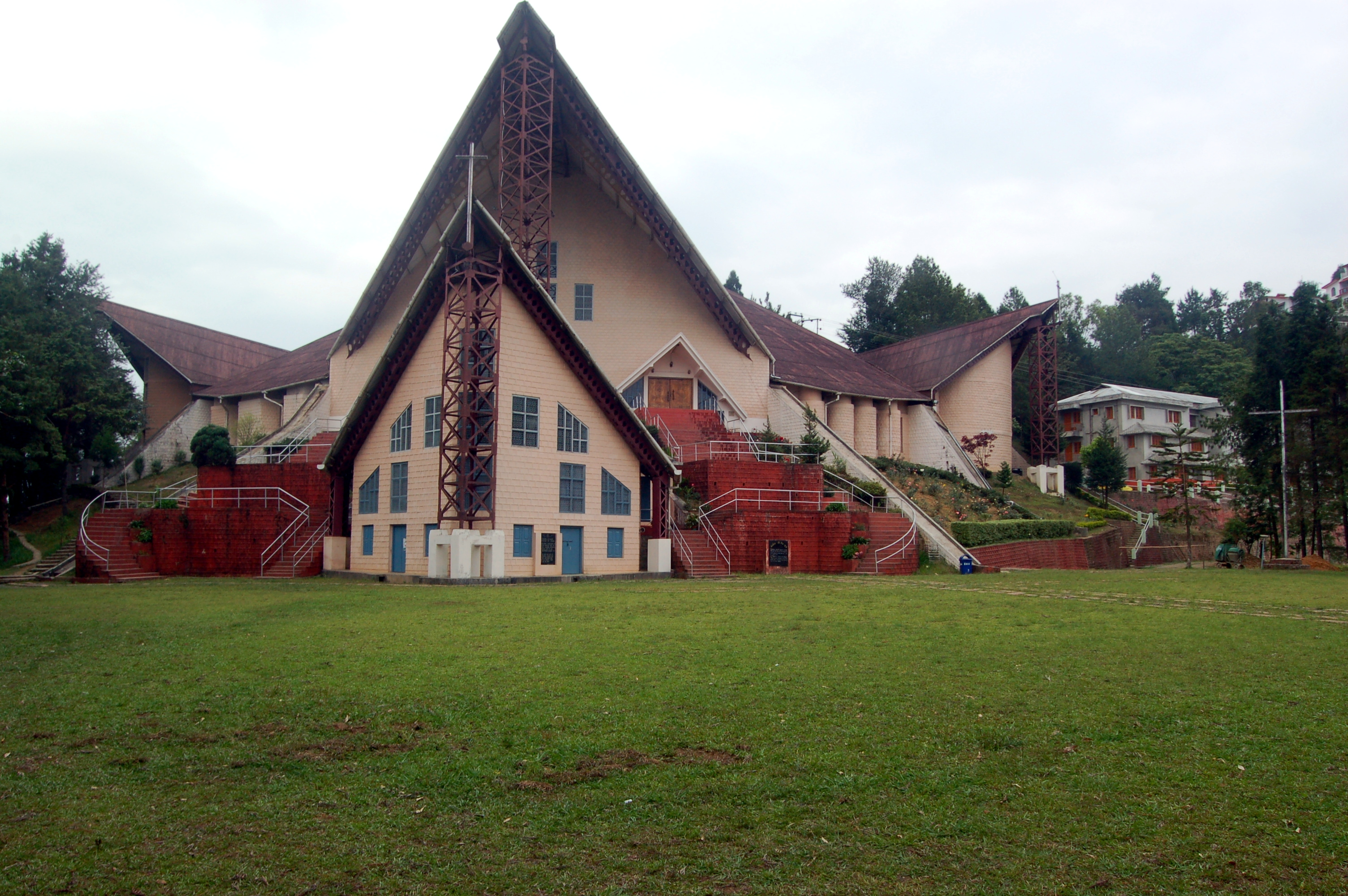 Mary Help of Christians Cathedral of the Diocese of Kohima by Deep Goswami